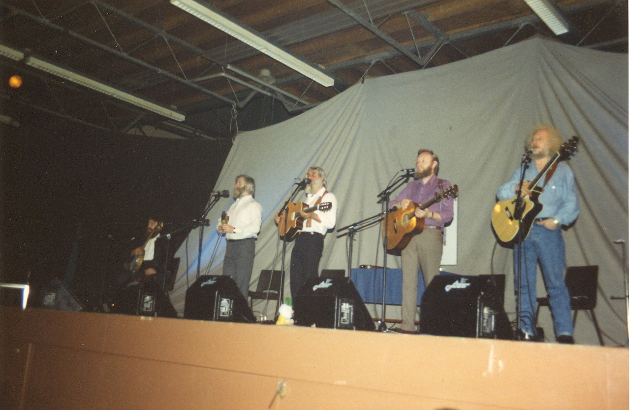 Zelfgemaakte foto tijdens een concert in Eindhoven Foto: Aloys Soullie (Not in original description, but from title, presumably this is the Irish band The Dubliners)